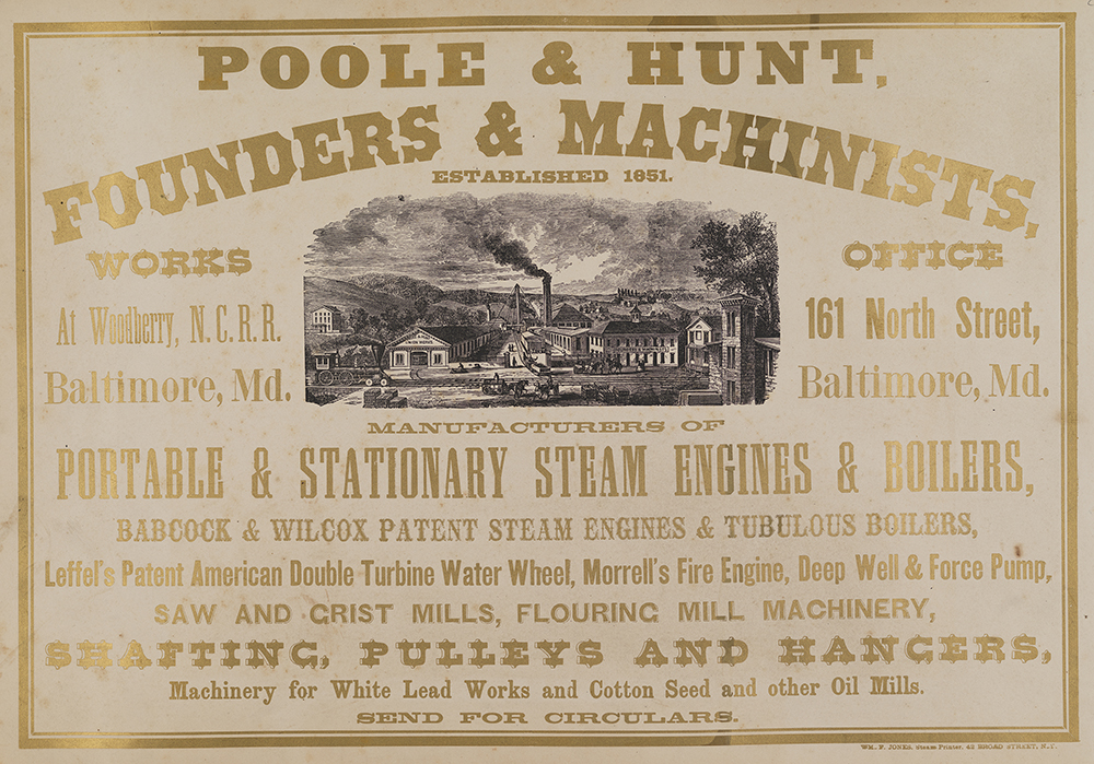 Title: Poole & Hunt, Founders & Machinists, Established 1851. Alternative Title: Union Pacific Railroad illustrations, [page 08] Creator: Unknown Date: 1869 Place: Baltimore Maryland Part Of: F594 .U5 1869/mode/exact Page Number: p. 08 Physical Description: 33 x 48 cm File: vault_folio_2_f594_u5_1869_08_opt.jpg Rights: Please cite DeGolyer Library, Southern Methodist University when using this file. A high-resolution version of this file may be obtained for a fee. For details see the web page. For other information, For more information and to view the image in high resolution, View U.S. West: Photographs, Manuscripts, and Imprints